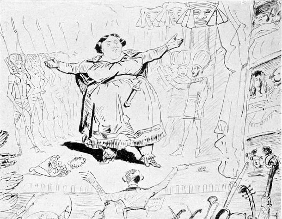 Eugène Giraud - Caricature of Marietta Alboni in Semiramide by Rossini at the Théâtre Italien